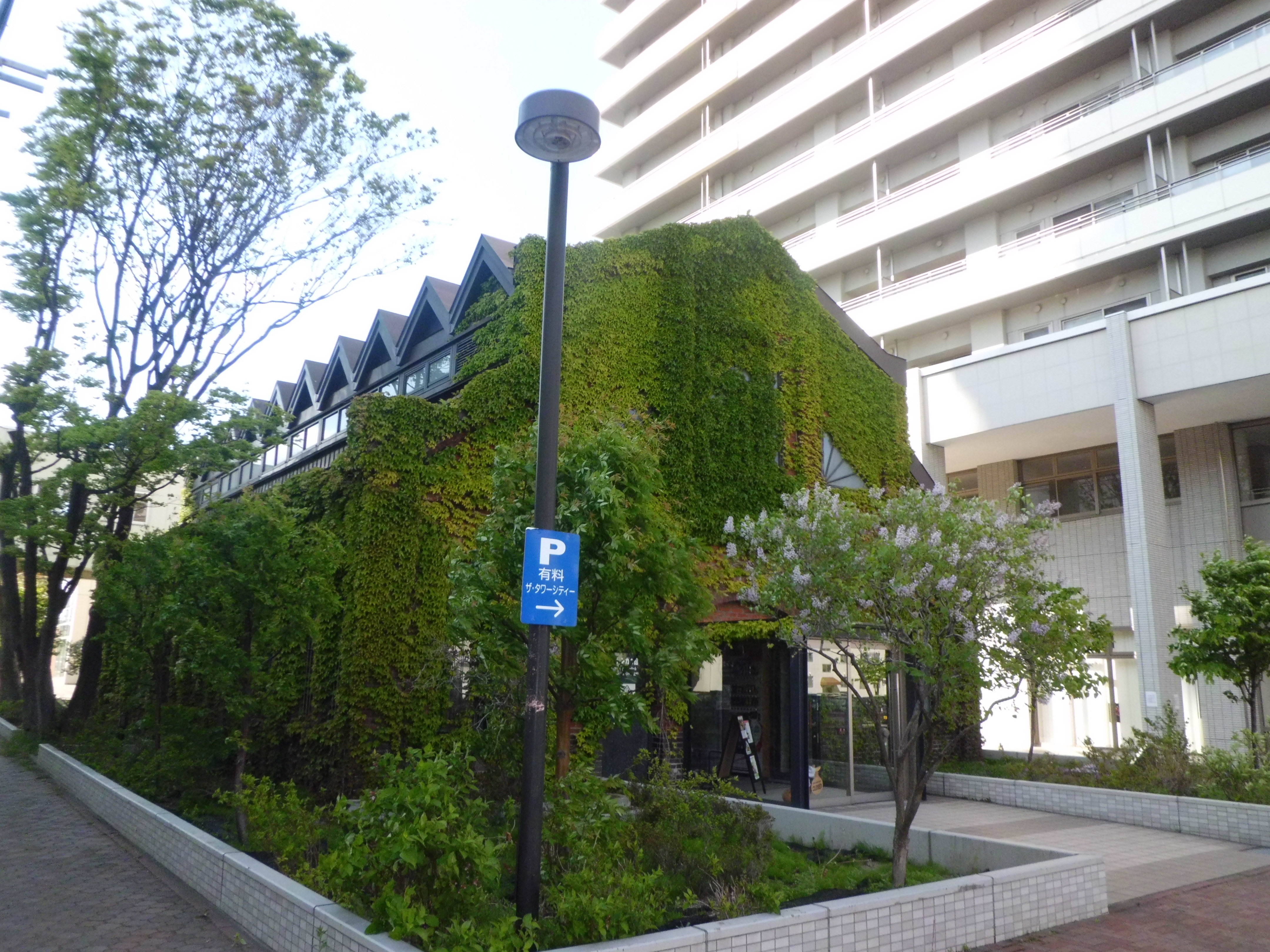 Bricks Hall of Kotoni, Sapporo